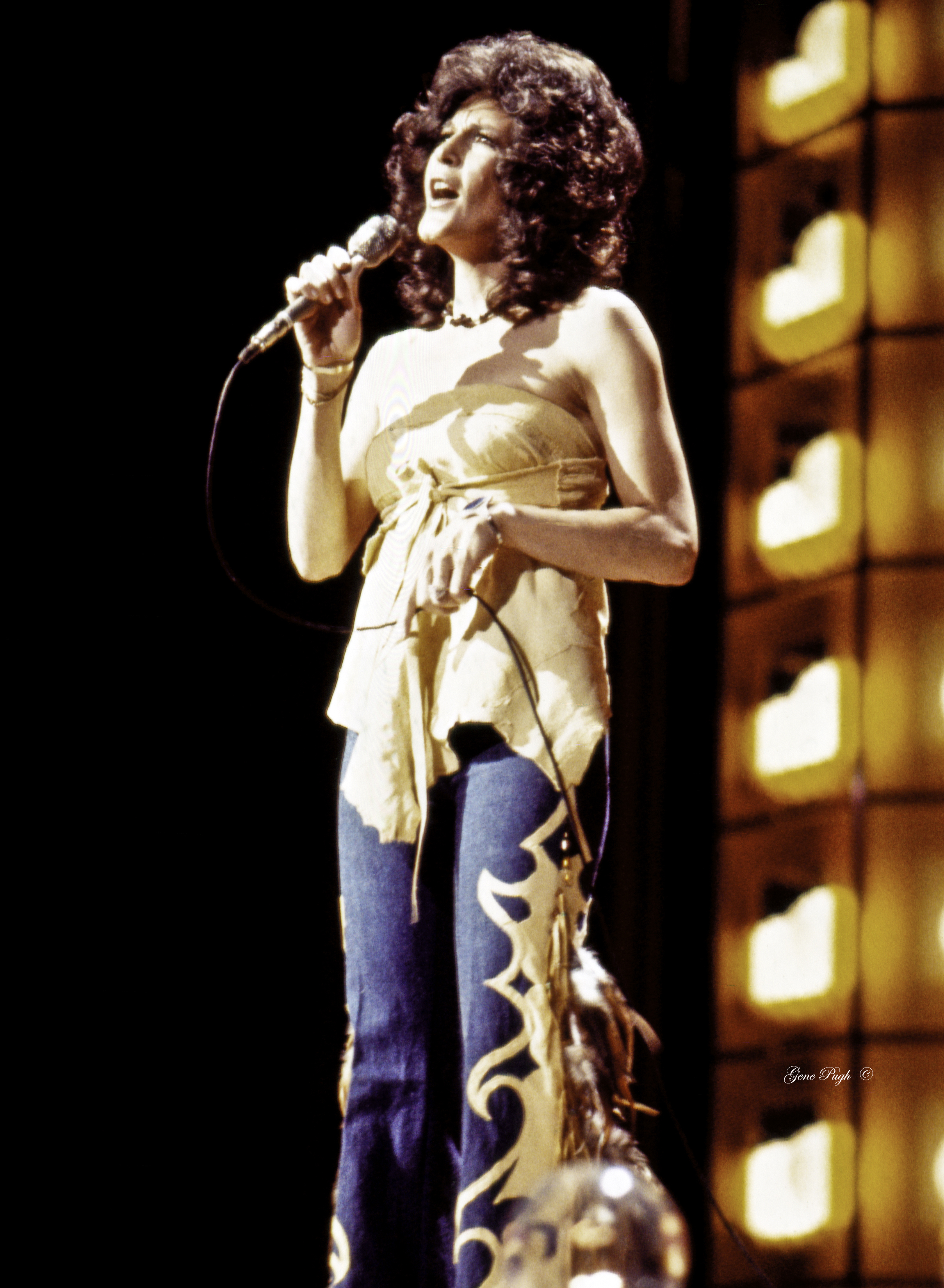 Donna Fargo photographed while at the taping of The Johnny Cash Show in Nashville, Tenn. 1978